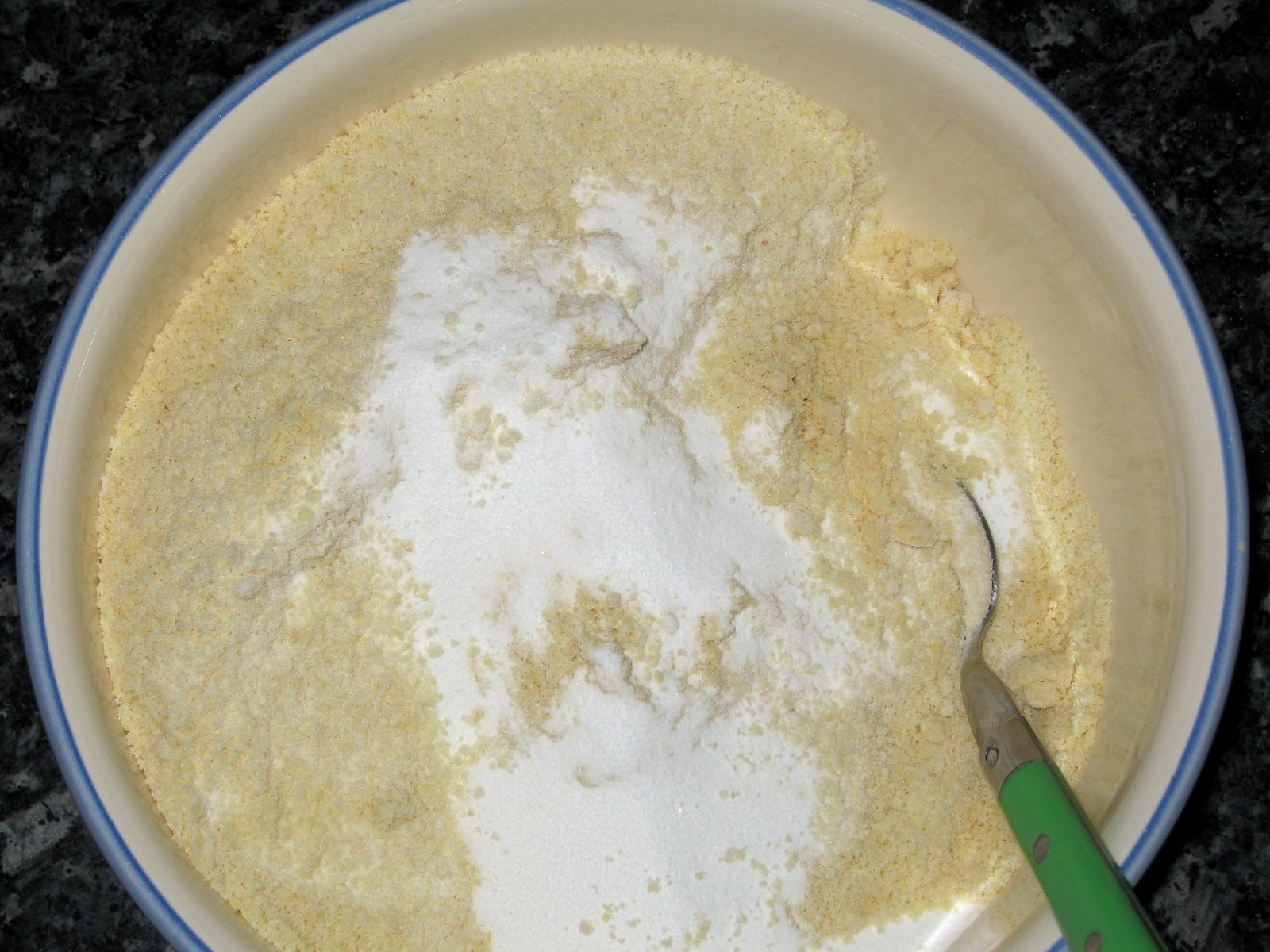 Marzipan recipe, step 1